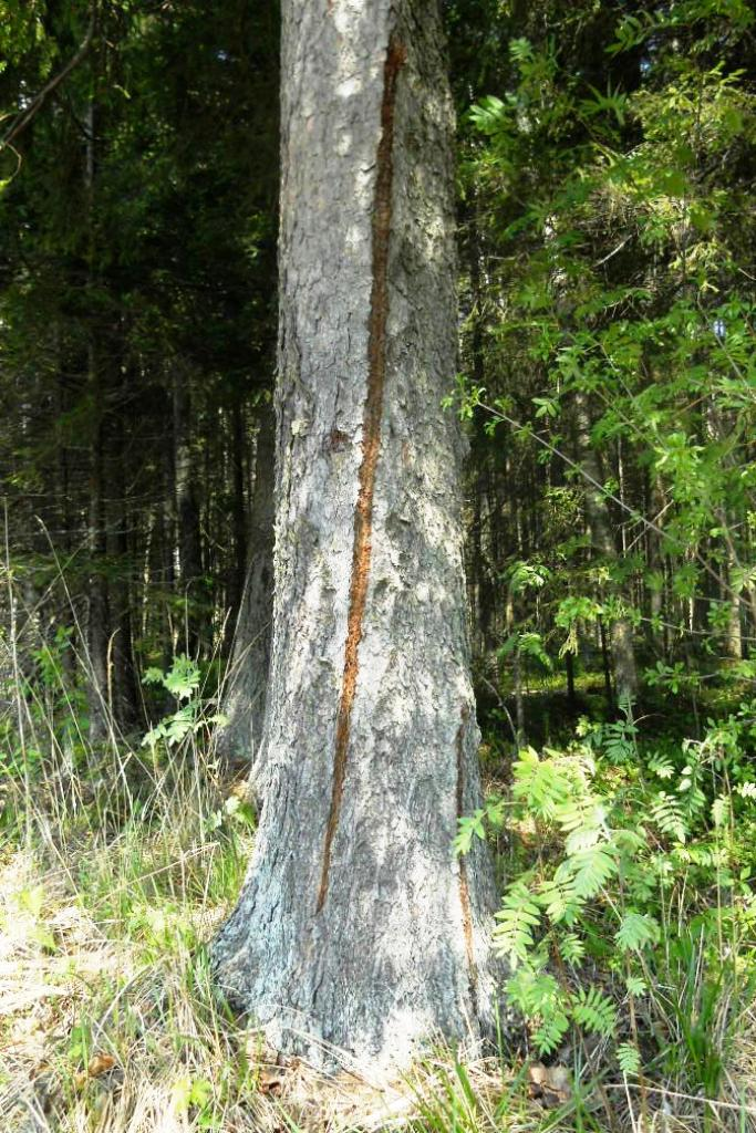 Frost crack on Picea abies